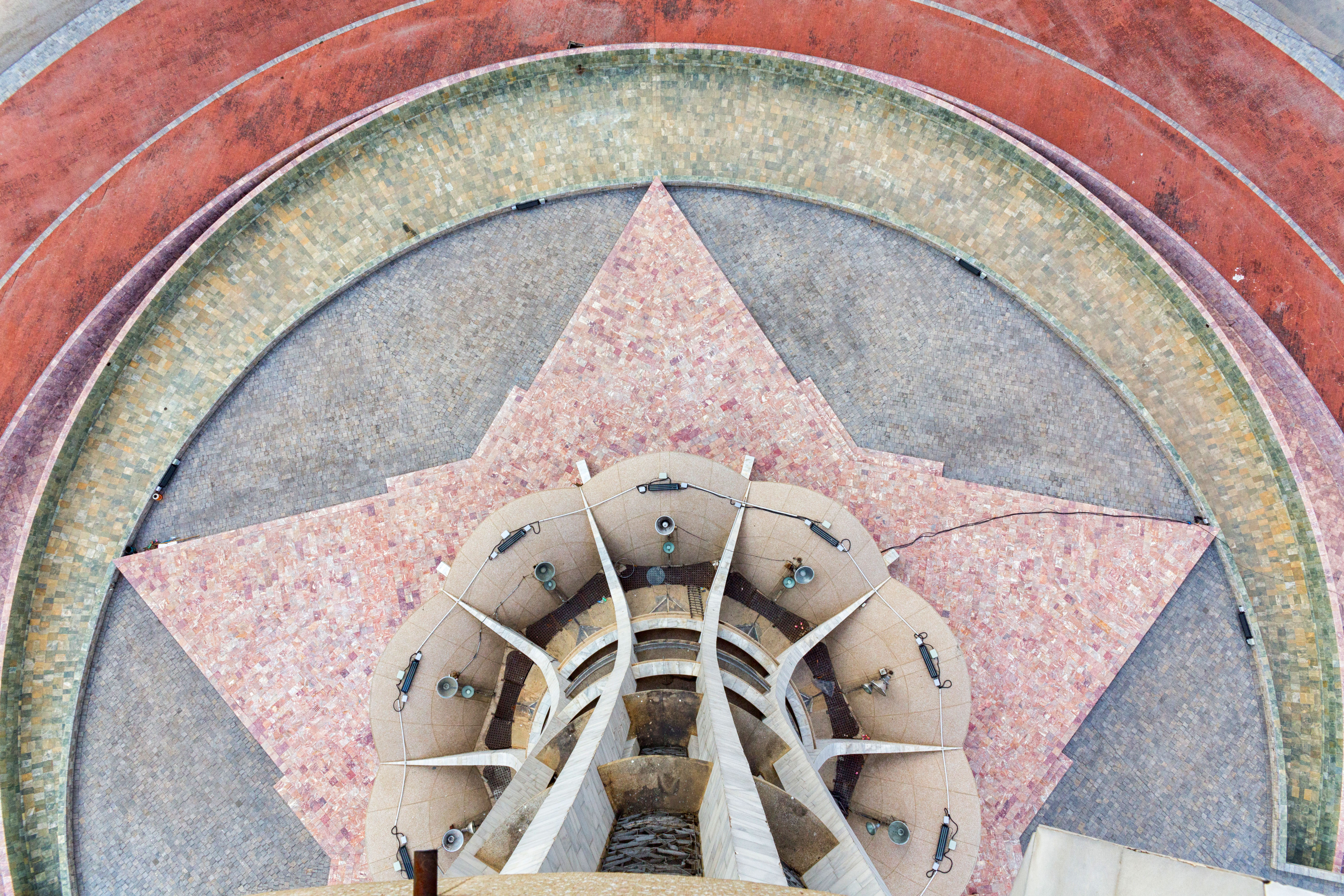 Minar-e-Pakistan This is a photo of a monument in Pakistan identified as the PB-73